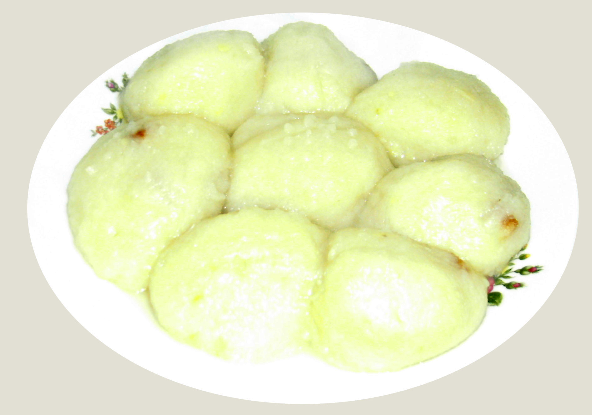 Dumplings from Potatoes